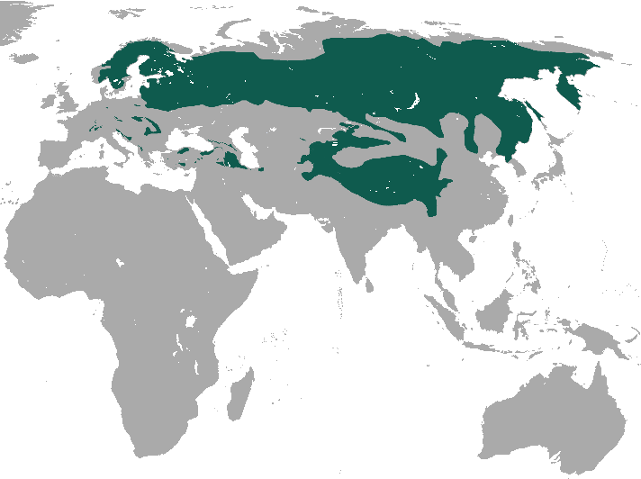 Eurasian Lynx (Lynx lynx) range